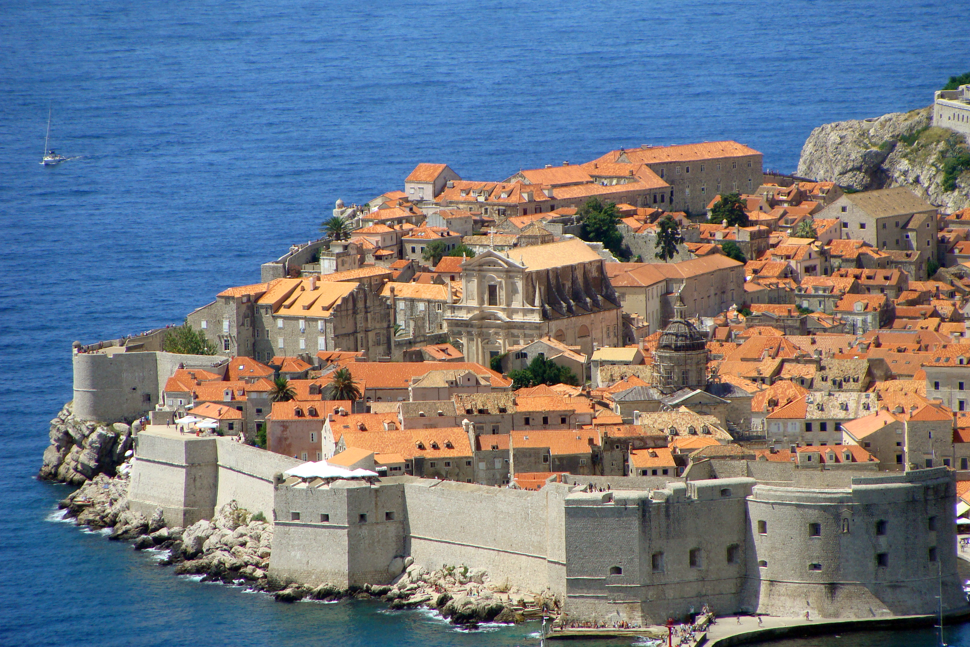 Dubrownik 2010